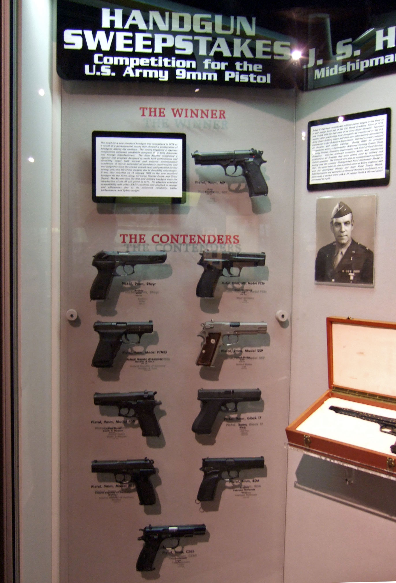 The candidates for the US Army's 9mm service pistol to replace the .45 caliber M1911. The Beretta eventually won.